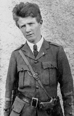 Sean Hogan O/C in Uniform 2nd Flying Column Third Tipperary Brigade in the Irish War of Independence in 1921.